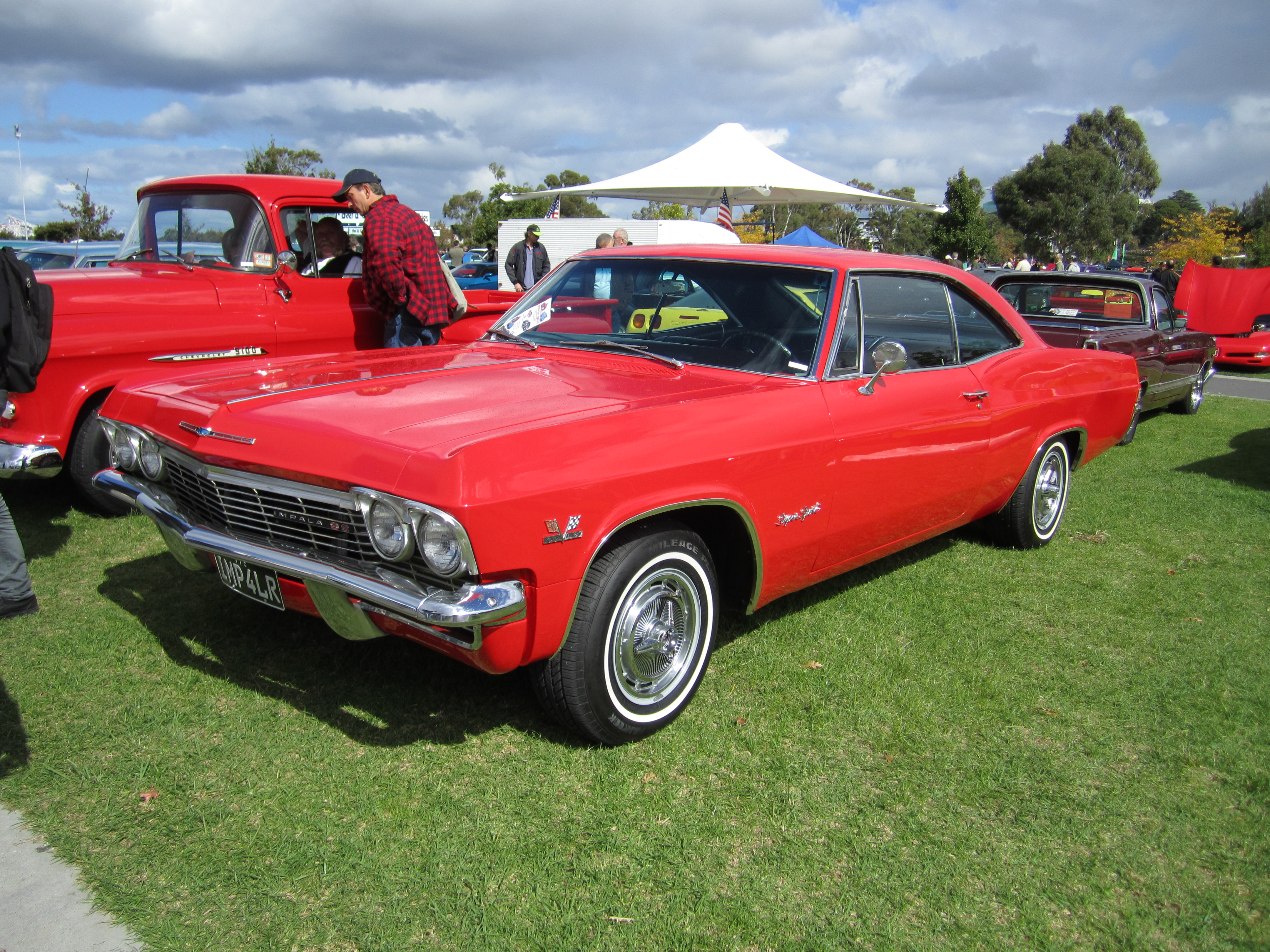 Available in Sedan, 2 & 4 door Hardtop, Coupe, Convertible & Wagon. Biscayne, Bel Air, Impala & Caprice. Engines; 230 6 cyl, 283, 327, 396, 409 & 427 V8s